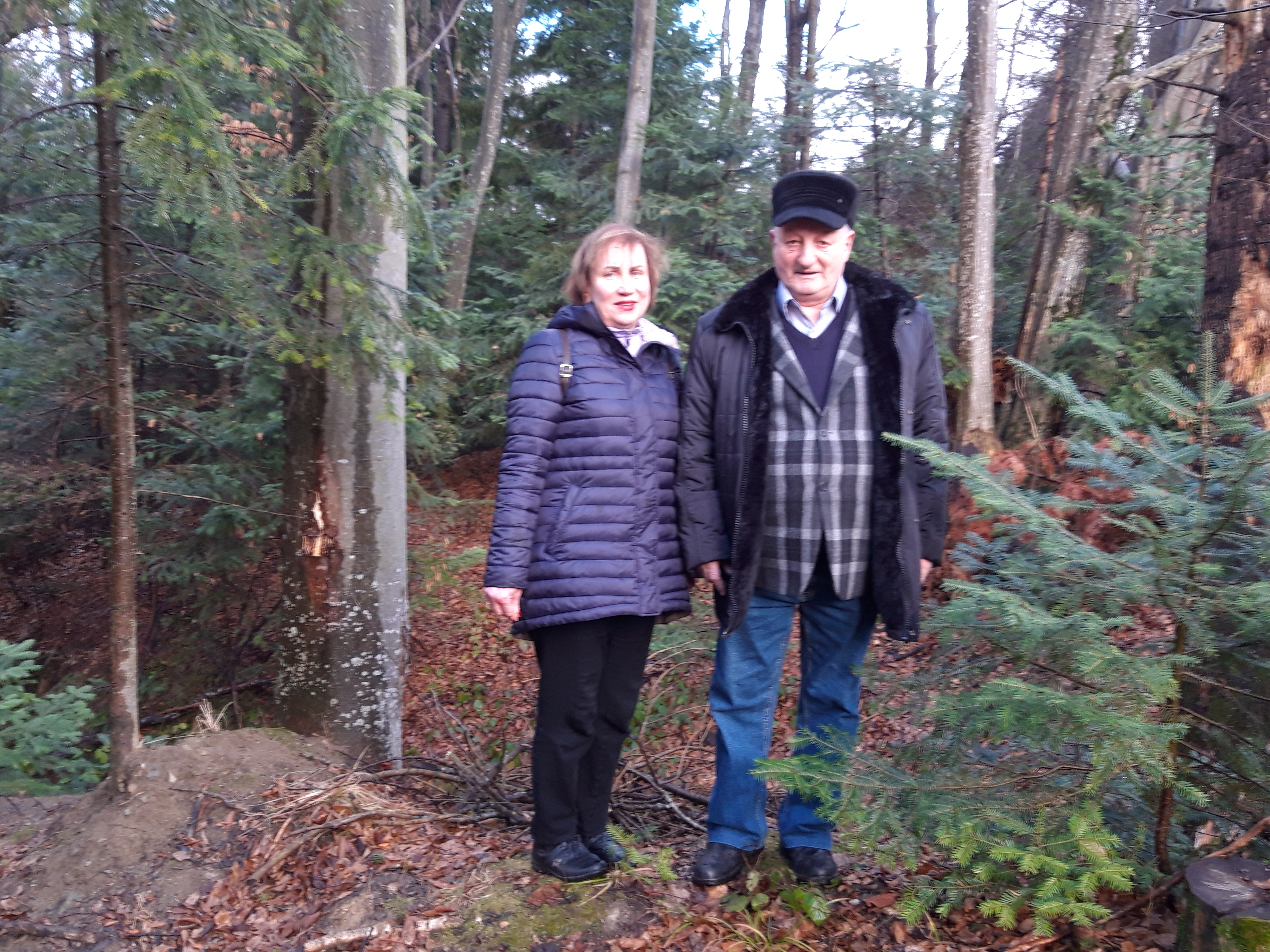 Daryna Maxymets-Tuz & Mykola Maxymets in Mygove (Chernivtsi Region), 2nd February 2020